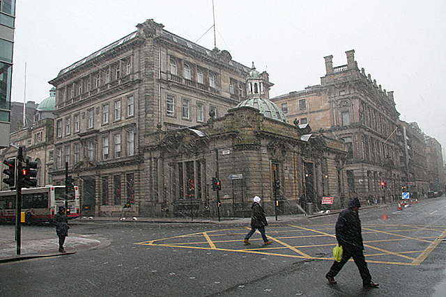 Stop, Look , Listen and Think Pedestrians crossing Ingram street. Not a good example of the Green Cross Code !.